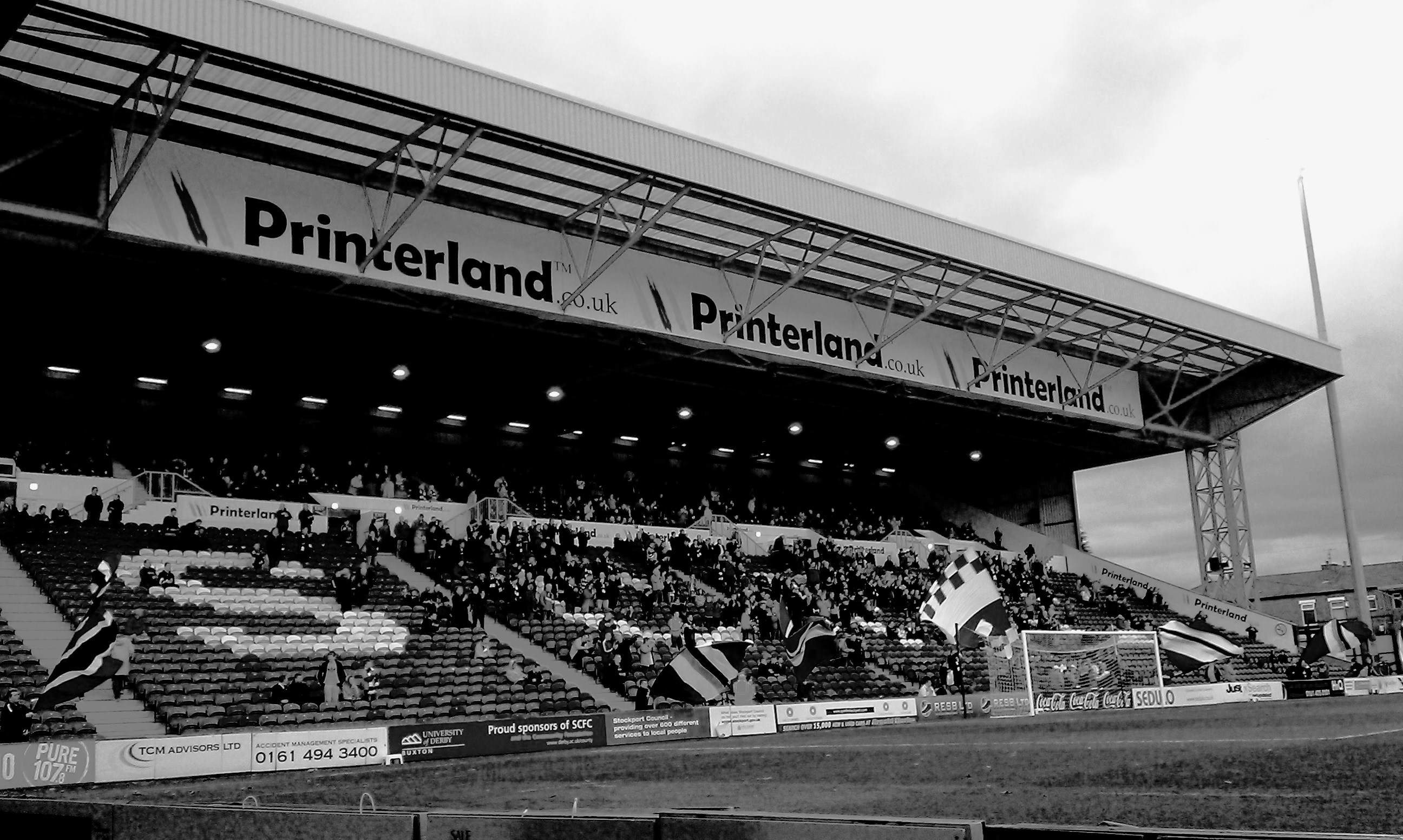 The 'Famous' Cheadle End before Stockport County's F.A. Cup First Round Fixture with League One Peterborough United. The Match Ended In A 1-1 Draw